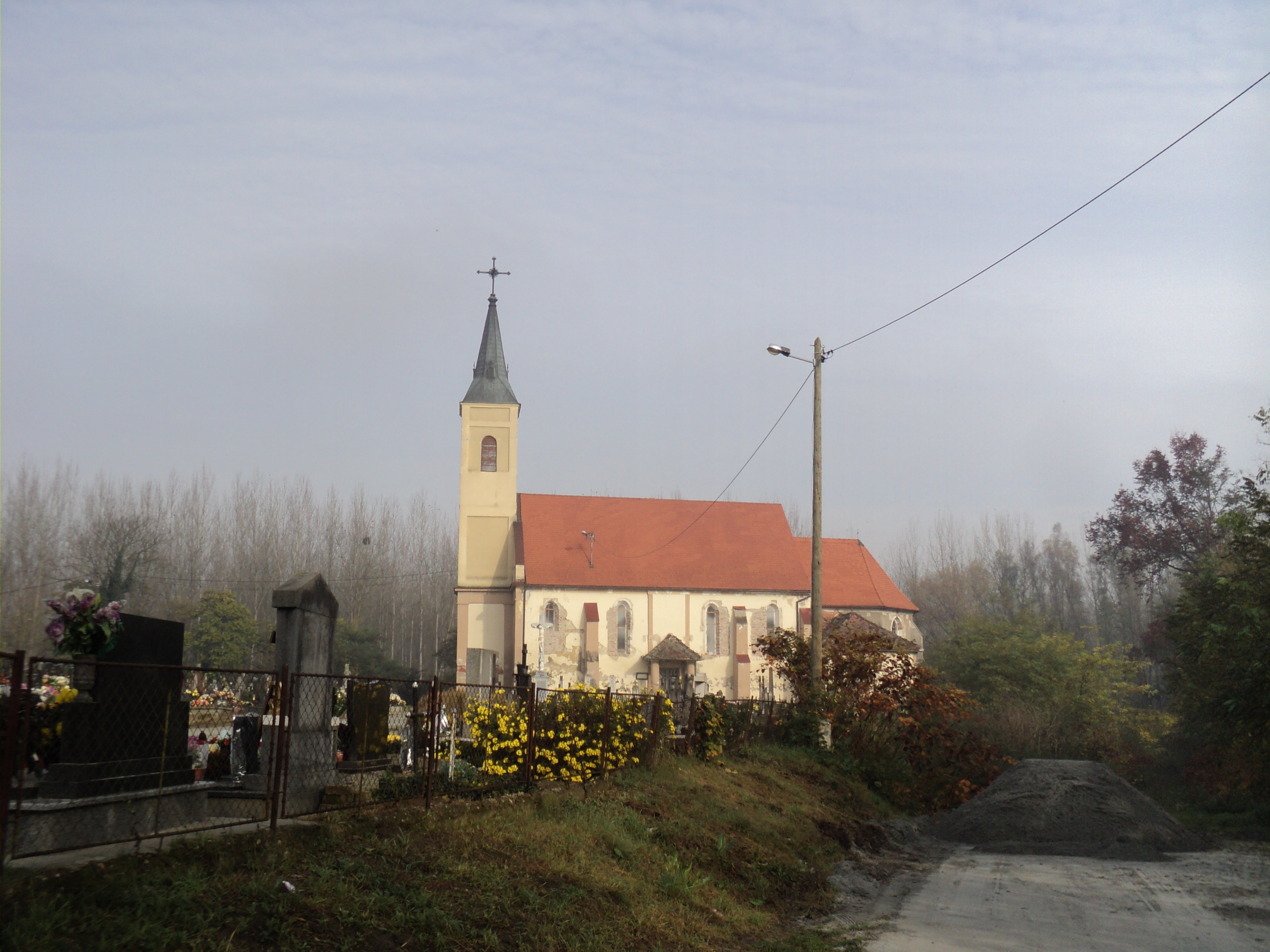 Saint George church in Sveti Đurađ, Donji Miholjac County, Croatia.